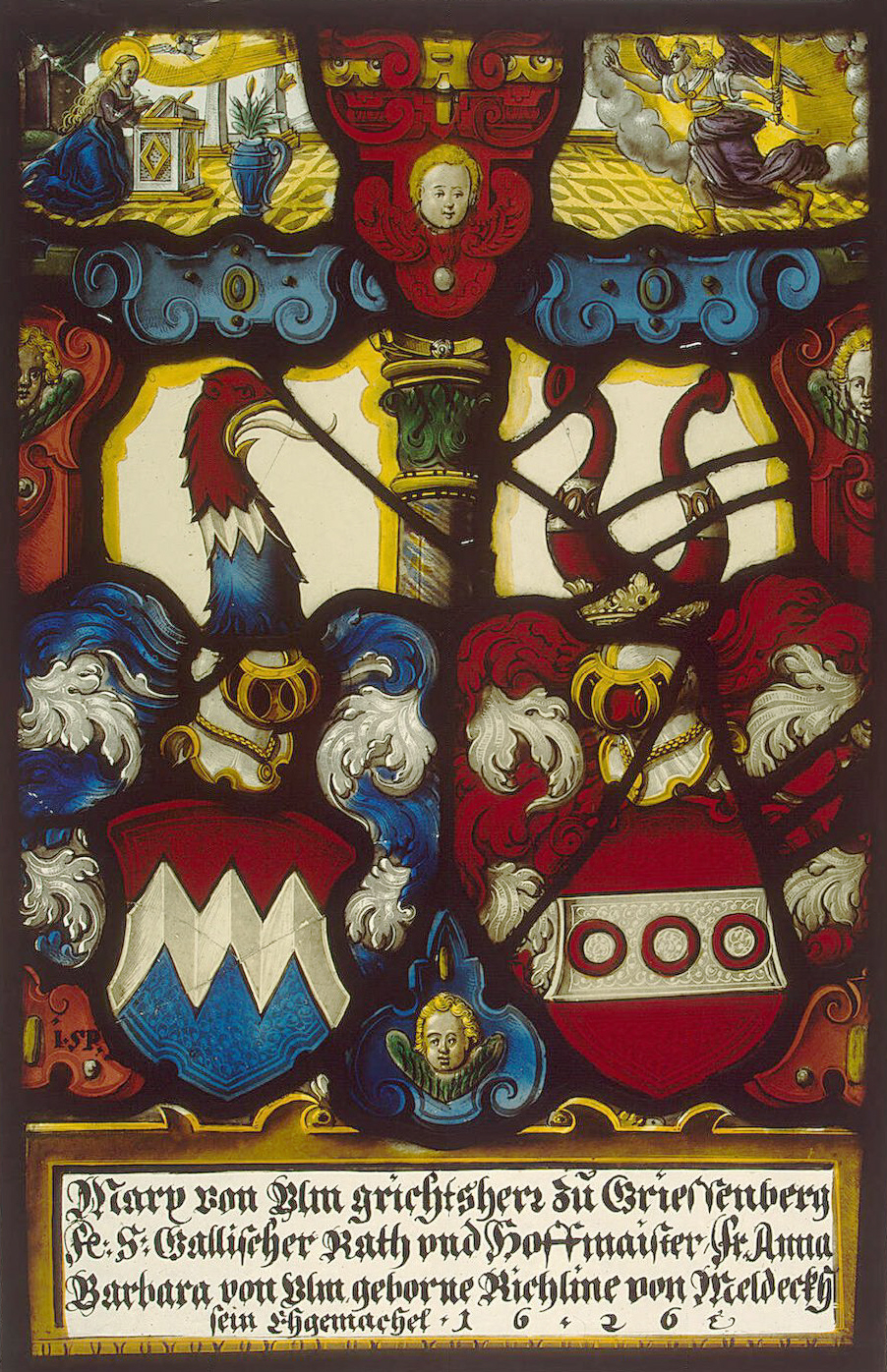 Hermitage, St. Petersburug; 32.2 x 21.5 cm. Coats-of-arms window with coats of arms of the Ulm family and the Reichlin von Meldegg family.